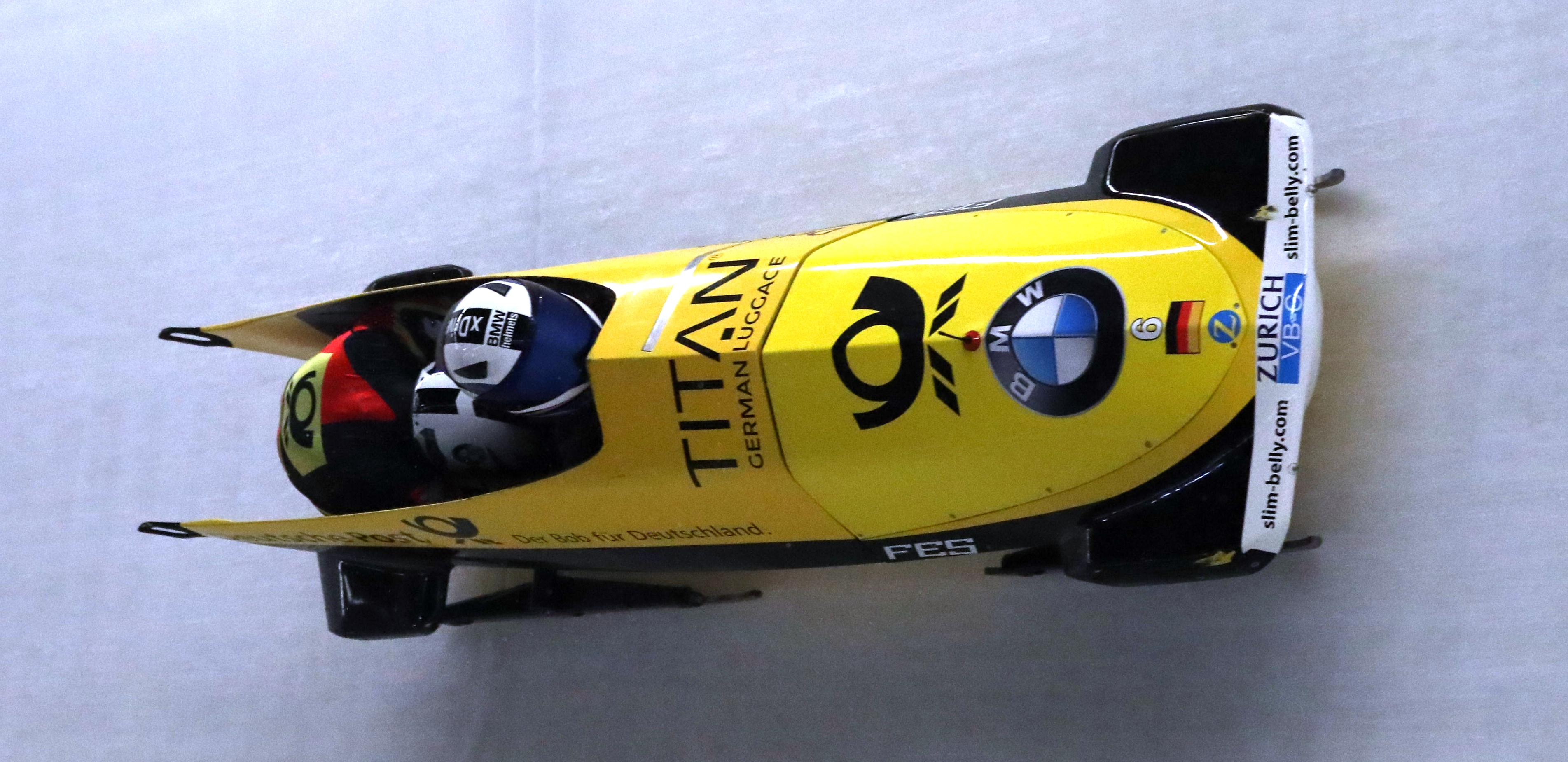 2-man Bobsleigh Men's World Cup race at the 2018/19 Bobsleigh World Cup in Altenberg